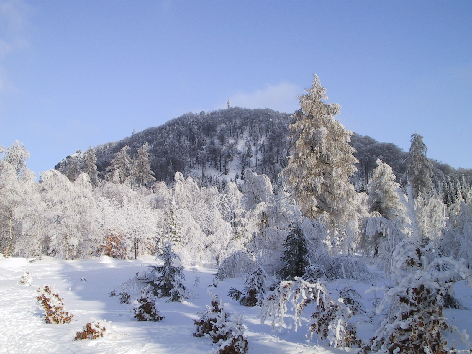 Mountain Lausche in Lusatian mountains (Lausitzer Gebirge), Germany/Czech republic